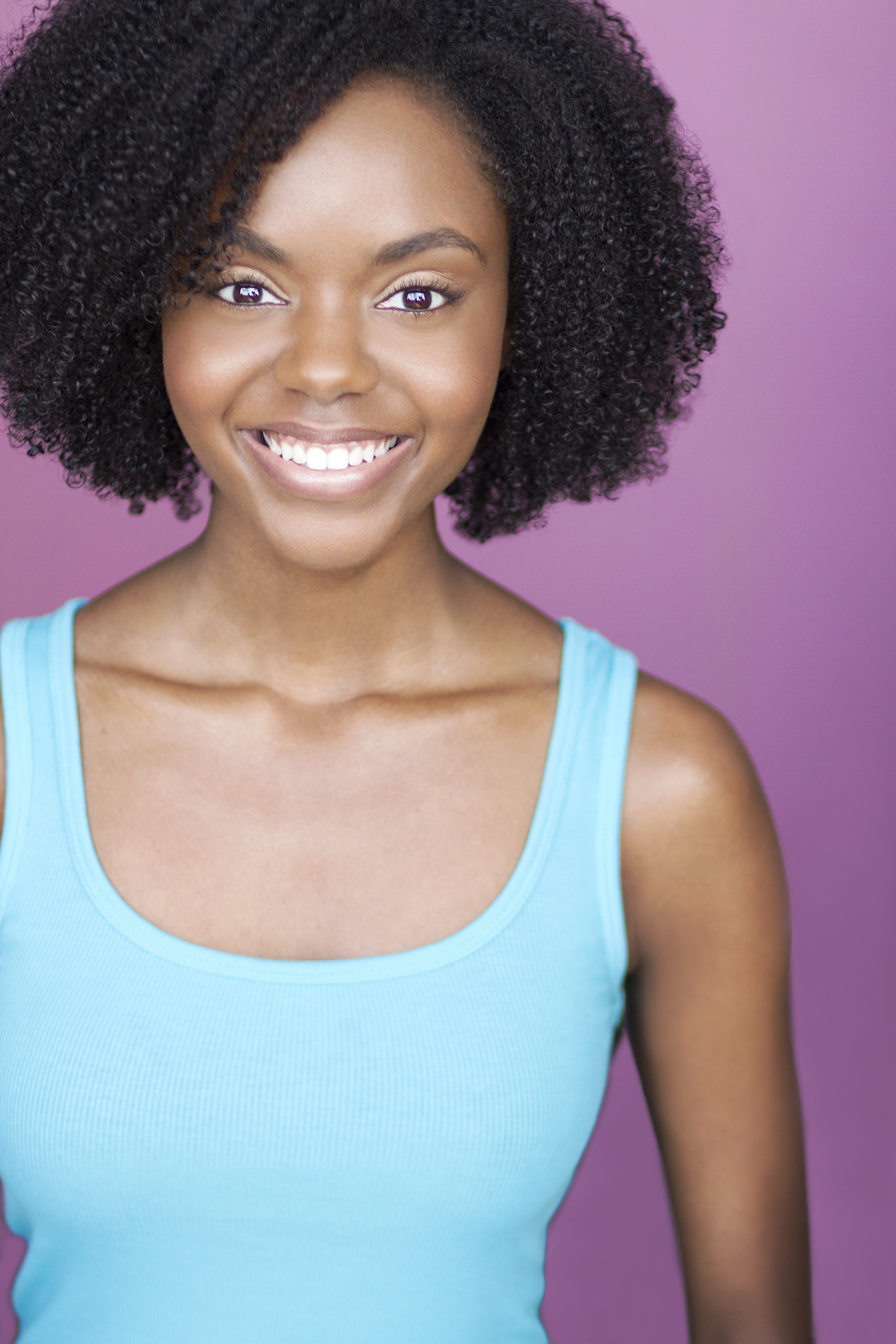 Ashleigh Murray (2015)